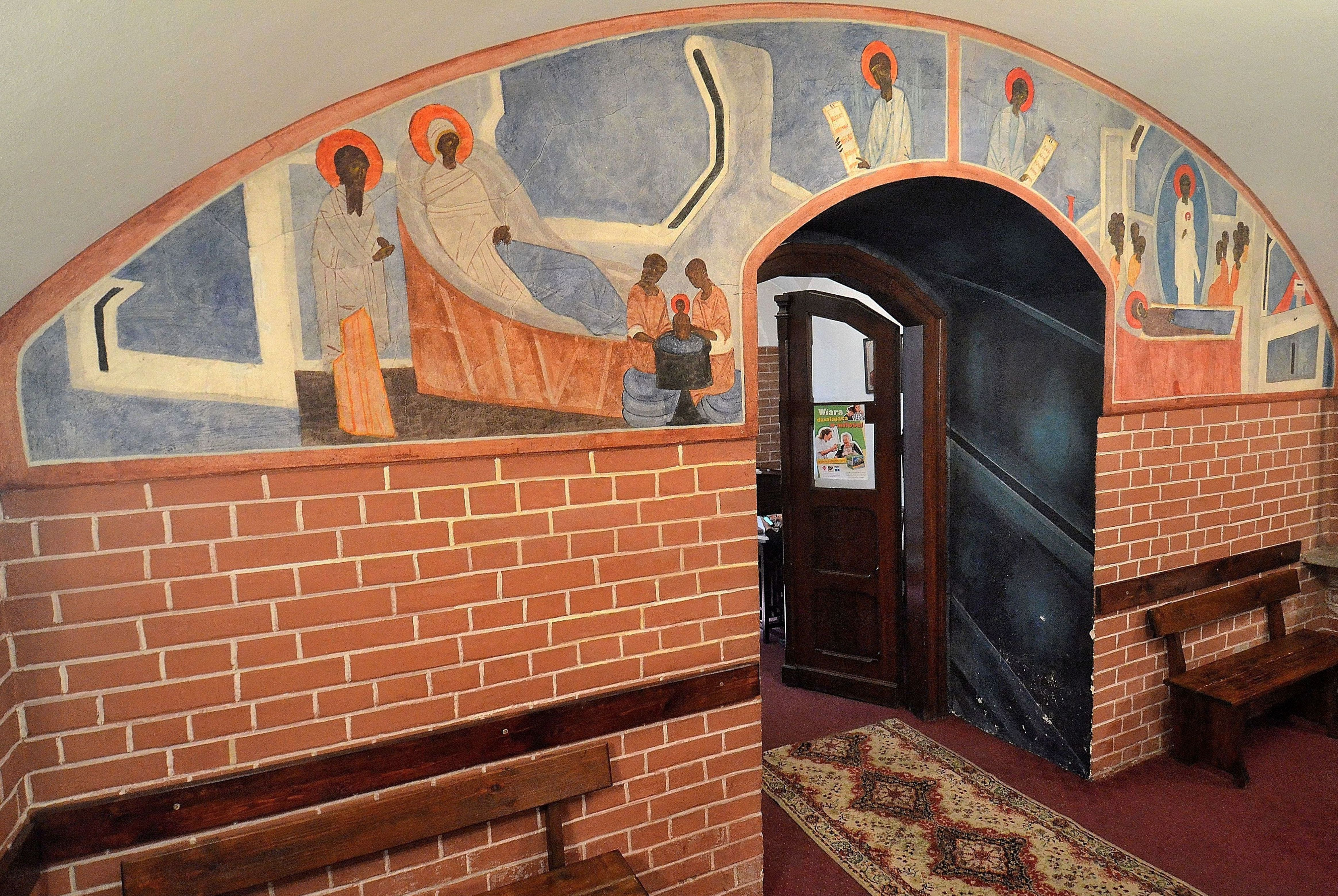 Frescos by Jerzy Nowosielski in the lower church of St. John Climacus Orthodox church in Warsaw